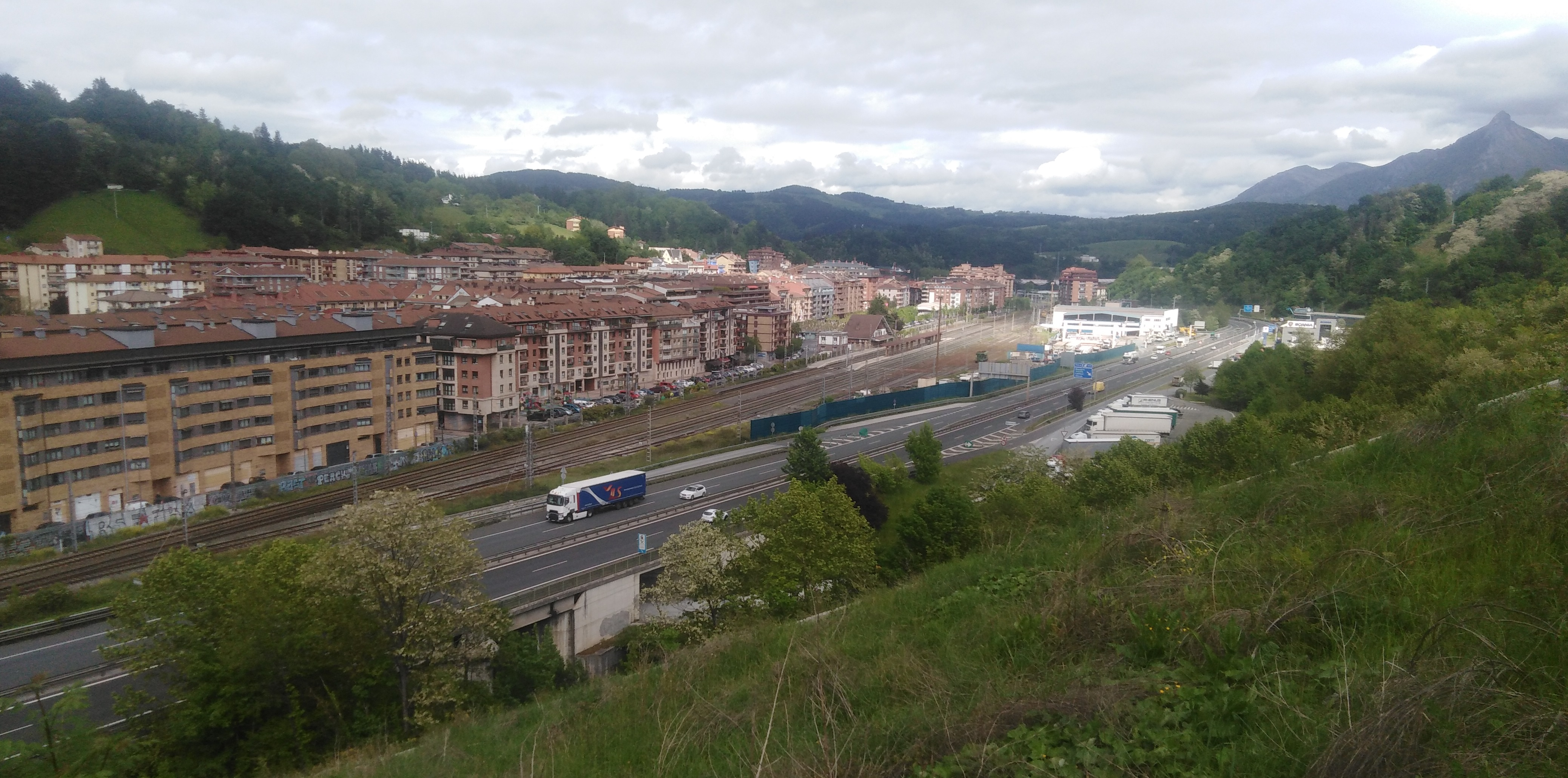 Beasain, Gipuzkoa, Euskal Herria